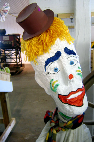 Originally posted here